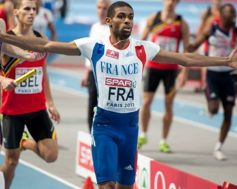 Yoann Décimus at the 2011 European Athletics Indoor Championships in Paris